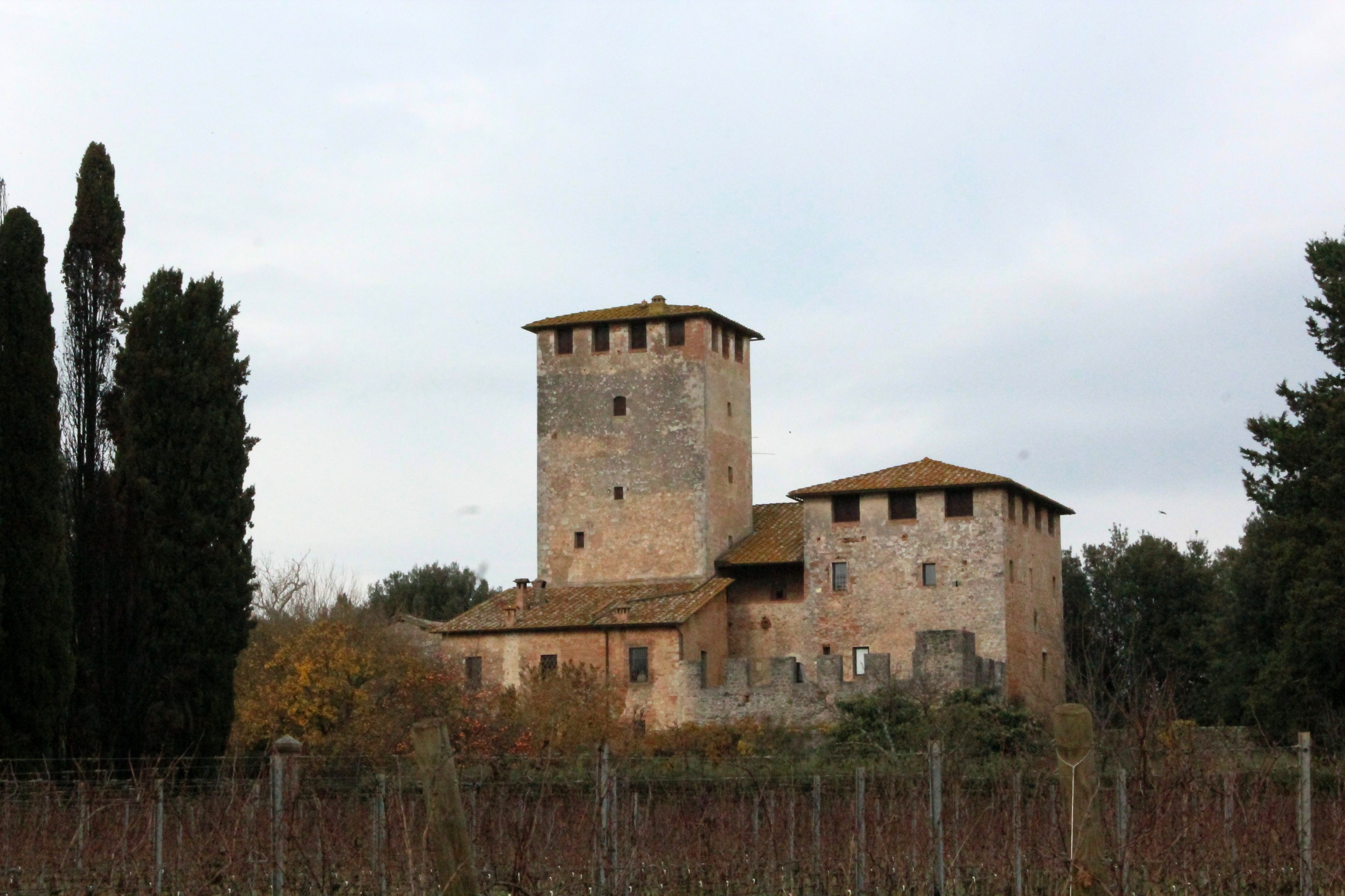 Castle of Poggiarello di Toiano, Toiano, Village in the Territory of Sovicille, Province of Siena, Tuscany, Italy